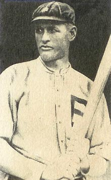 1921 Oxford Confectionery baseball card of Cy Williams